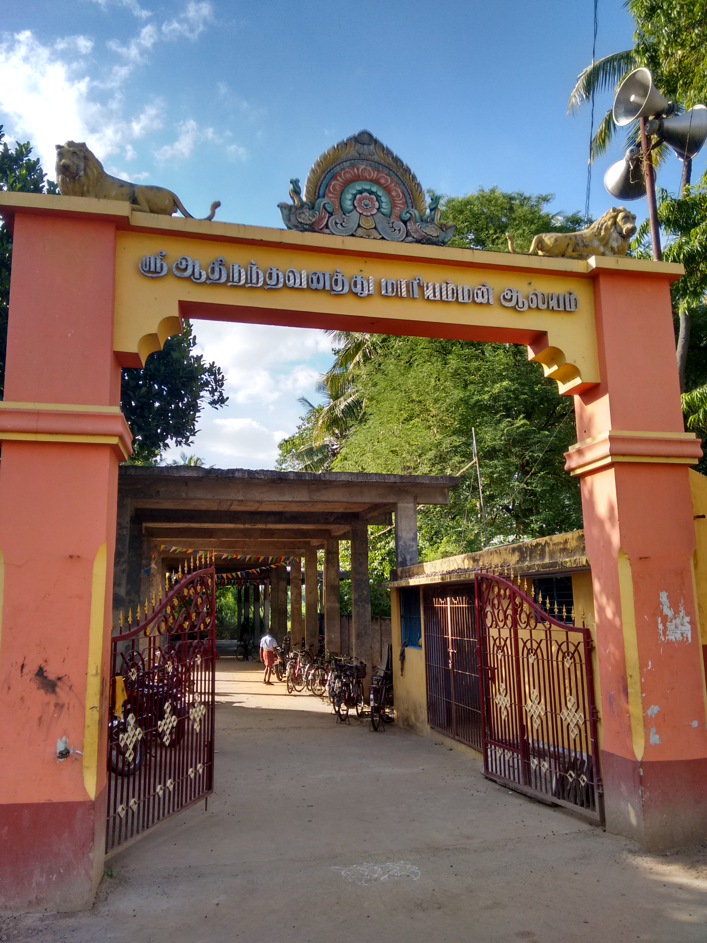 நந்தவனத்து மாரியம்மன்கோயில் Nandavanatthu mariamman temple